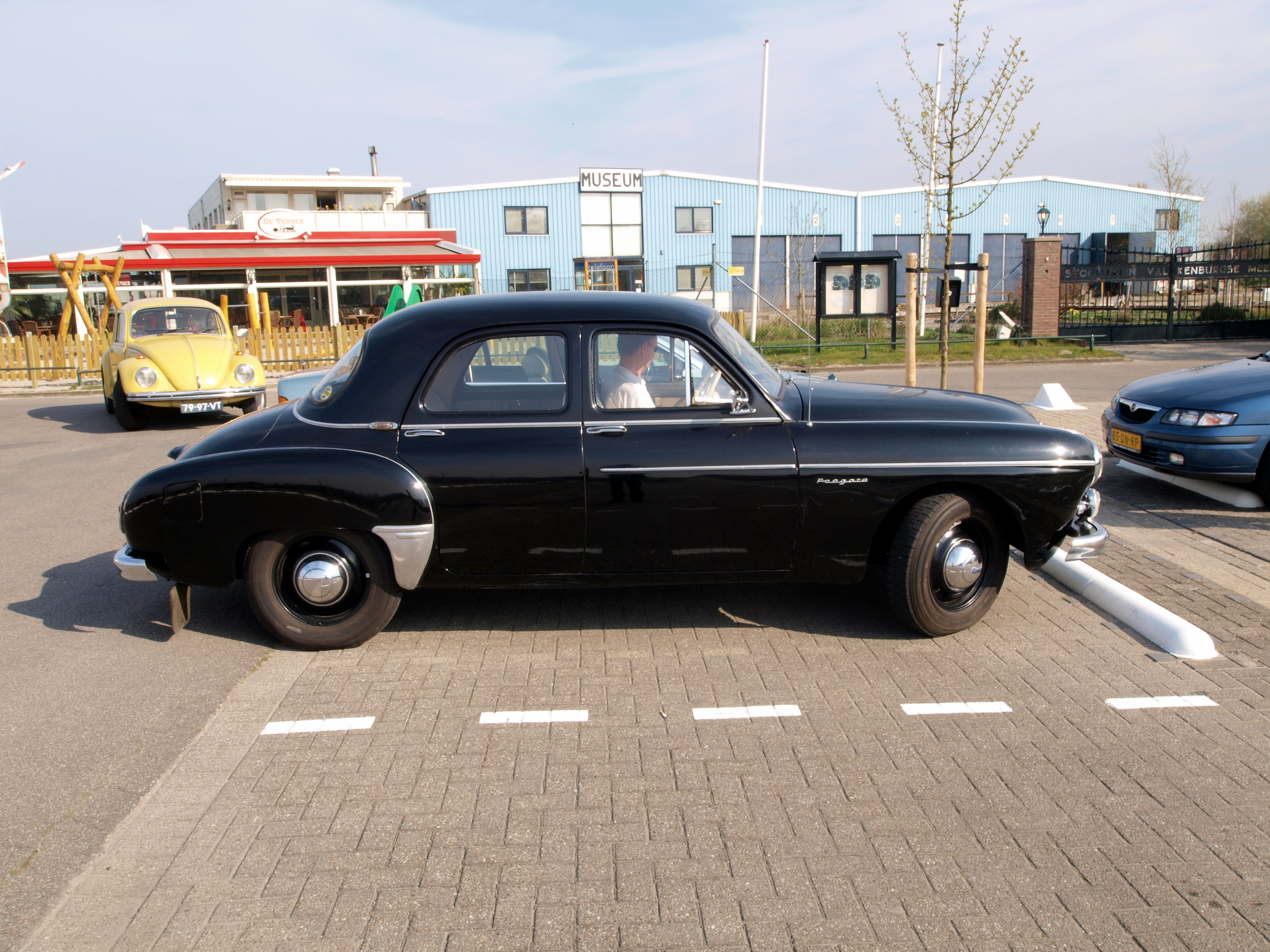 Cars and motorcycles photographed at the Voorschotense Oldtimer Vereniging Show, Valkenburgse meer, The Netherlands. OLYMPUS DIGITAL CAMERA